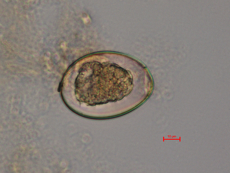 Diphyllobothrium latum - a fertilized egg with a visible operculum, opposite to the knob.